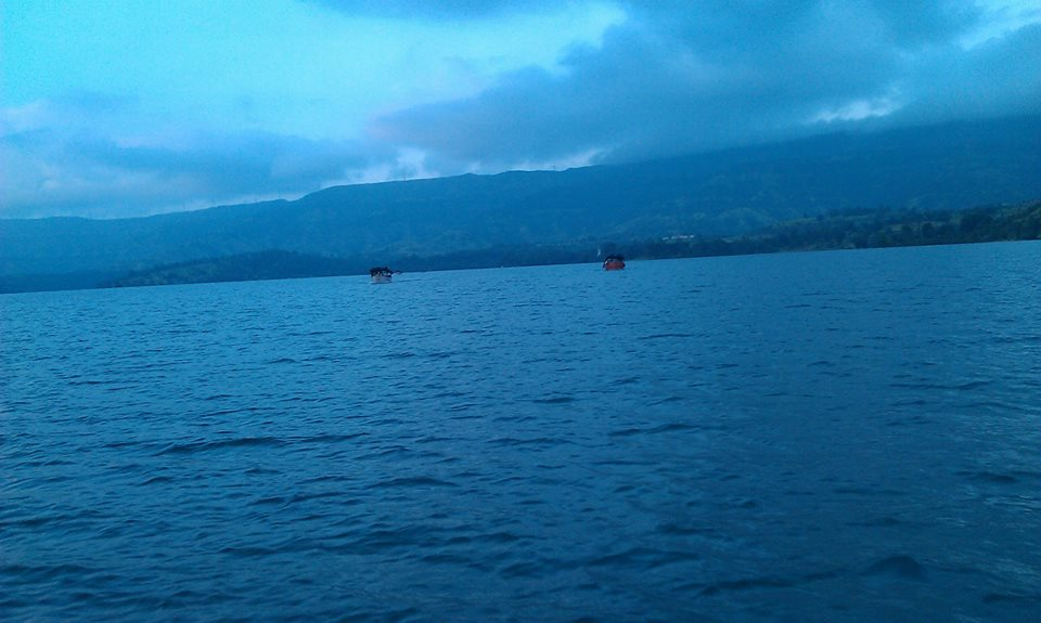 This photo has been taken while boating from bamnoli village.